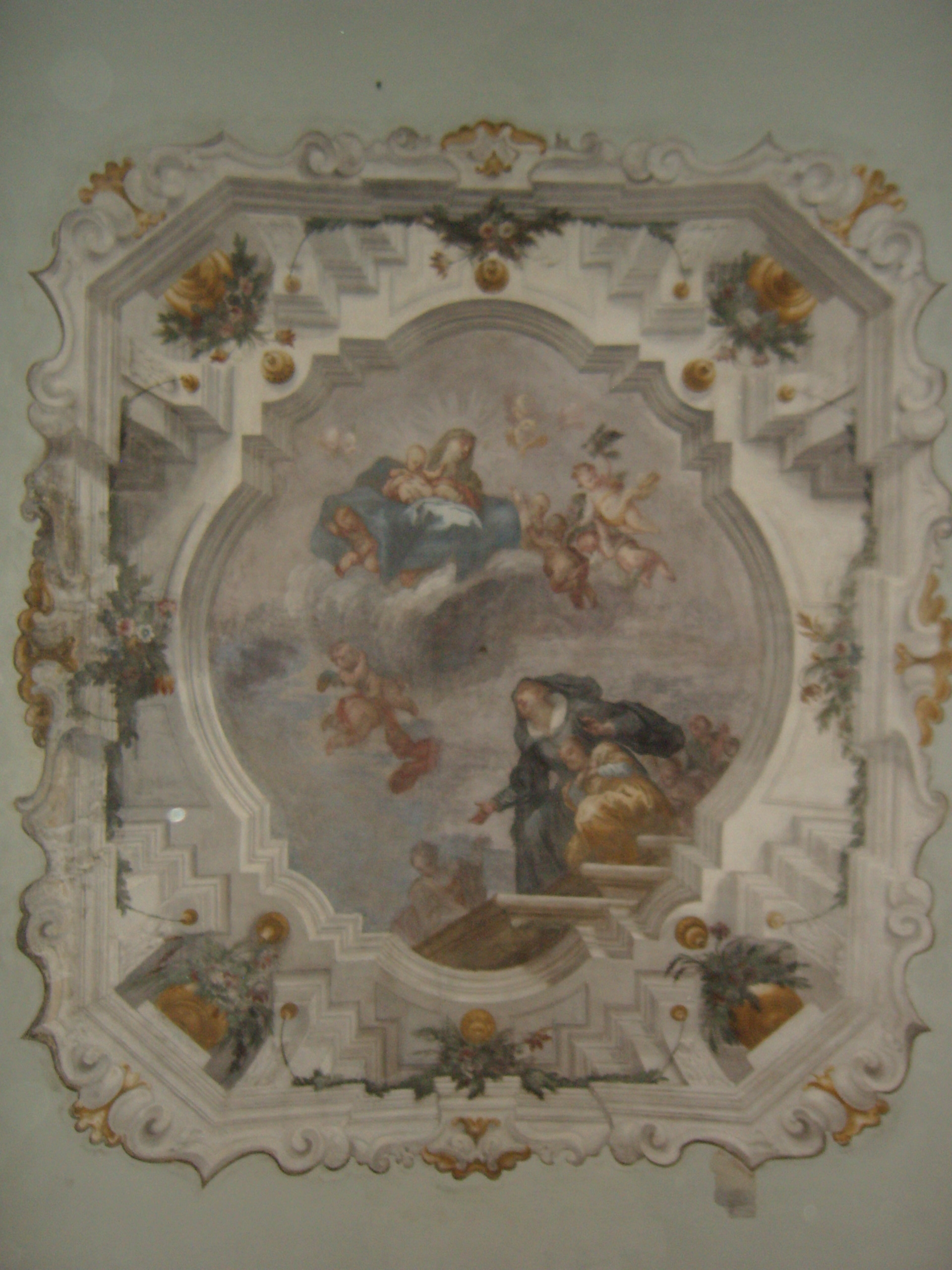 Ceiling of the Oratorio di San Giuseppe in via S. Antonino in Firenze, IT (Eleonora Ramirez Montalvo presenting her "ancille" to the Holy Virgin, 1717). Attributed to Rinaldo Botti (1658-1740)